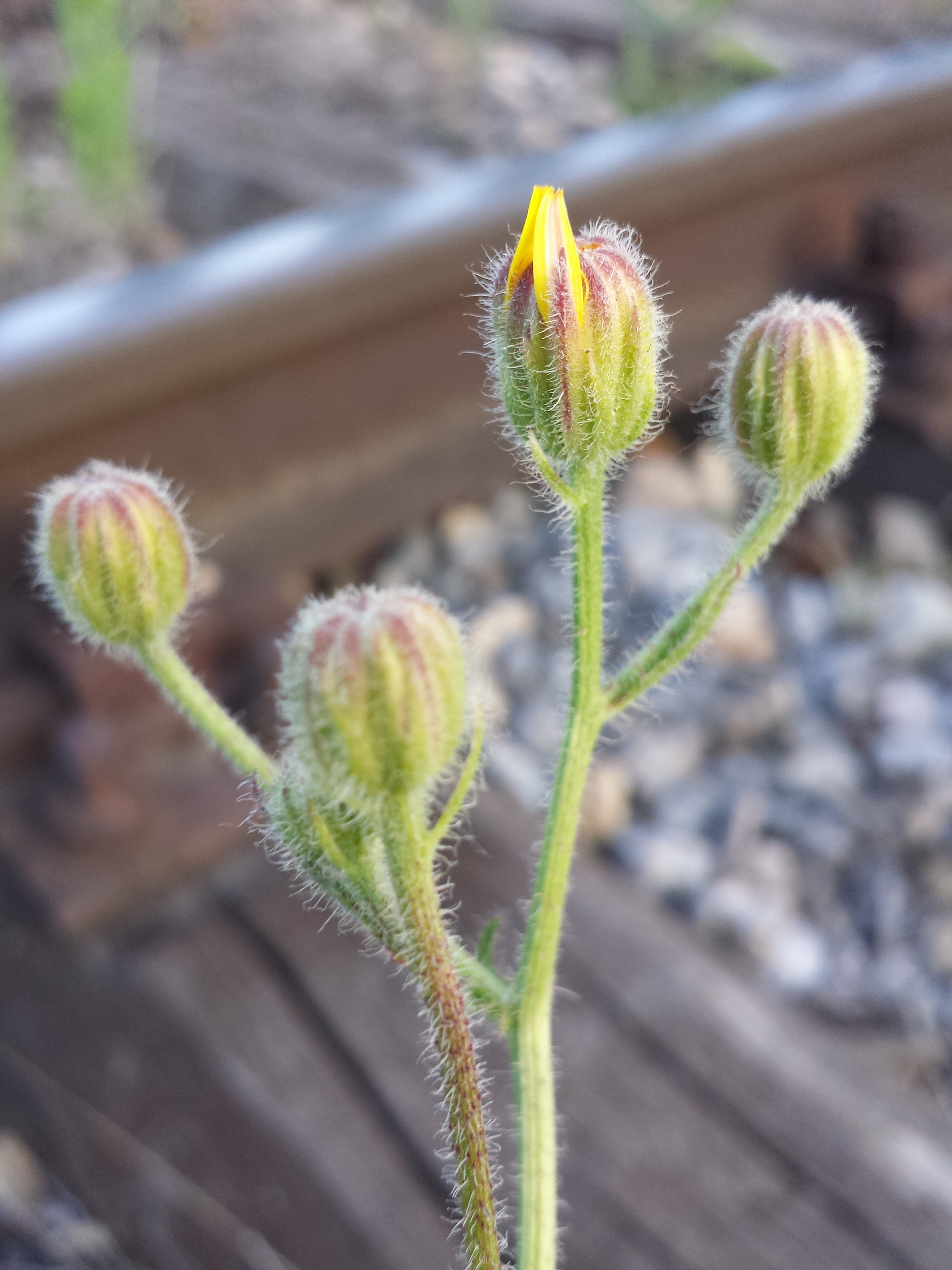 Flowers Taxon: Crepis foetida subsp. rhoeadifolia (sensu Fischer et al. EfÖLS 2008) Location: station Floridsdorf towards Leopoldau, Vienna-Floridsdorf - ca. 170 m a.s.l. Habitat: ballast